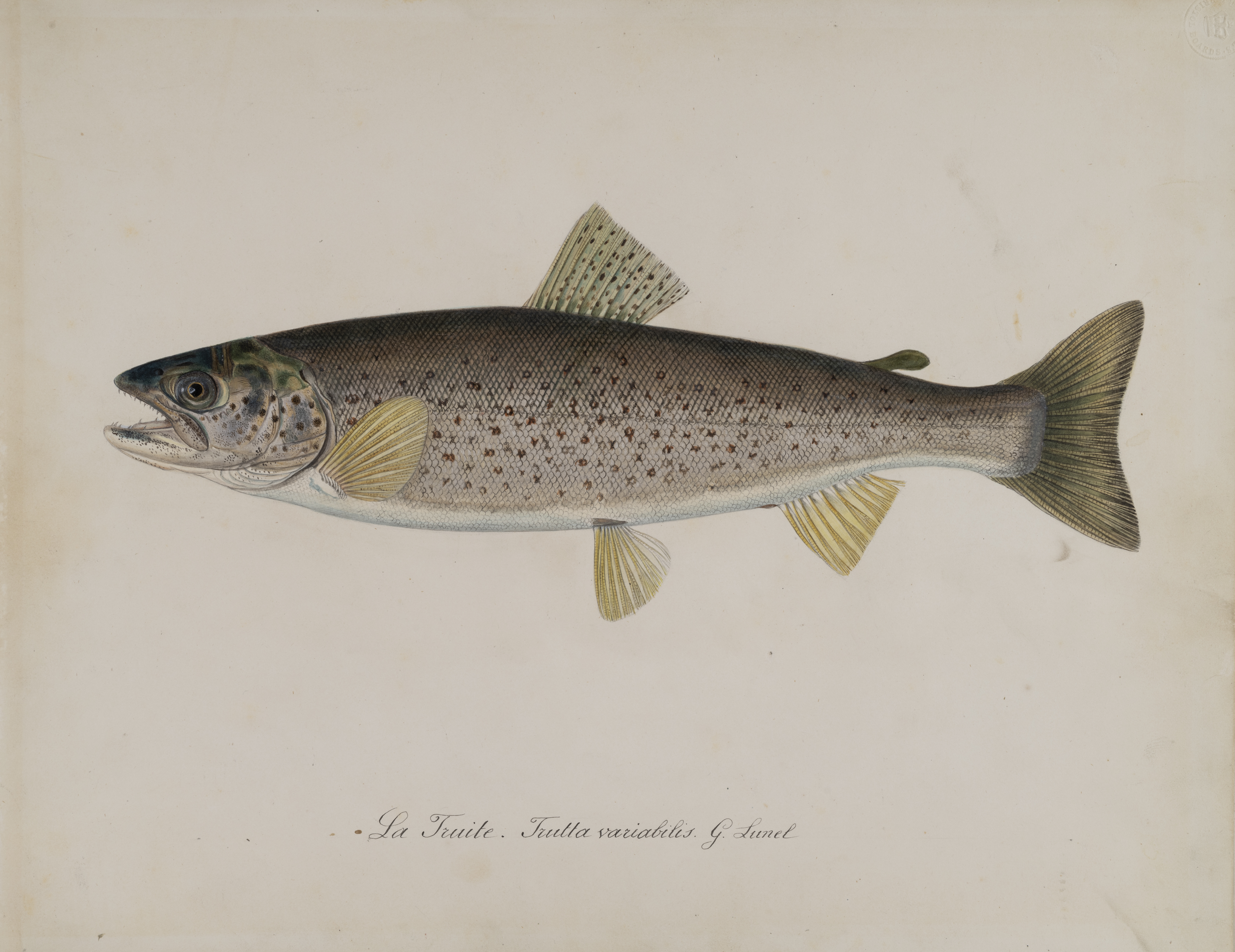 "La Truite Trutta variabilis G. Lunel"